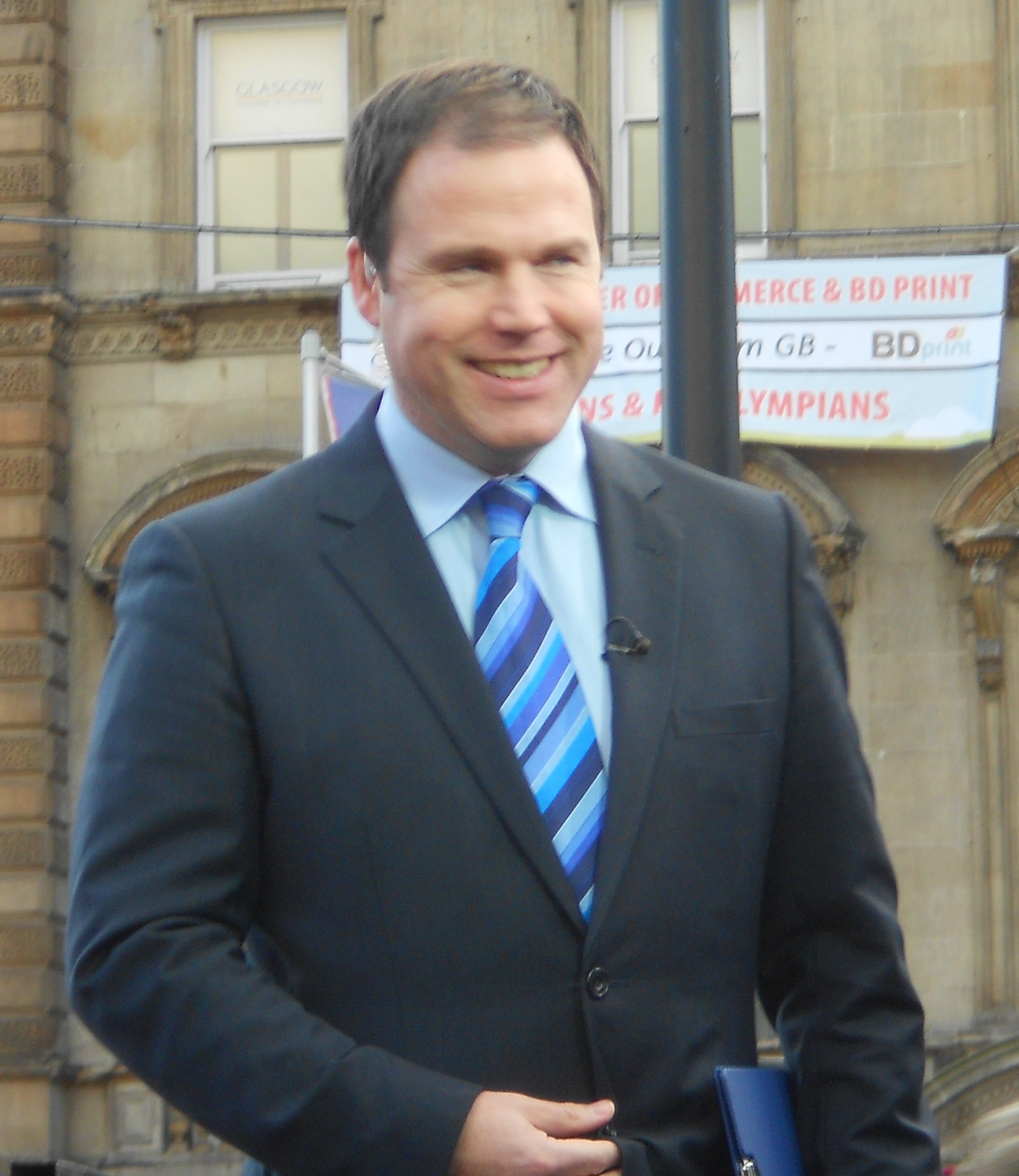 John Mackay, Newsreader.